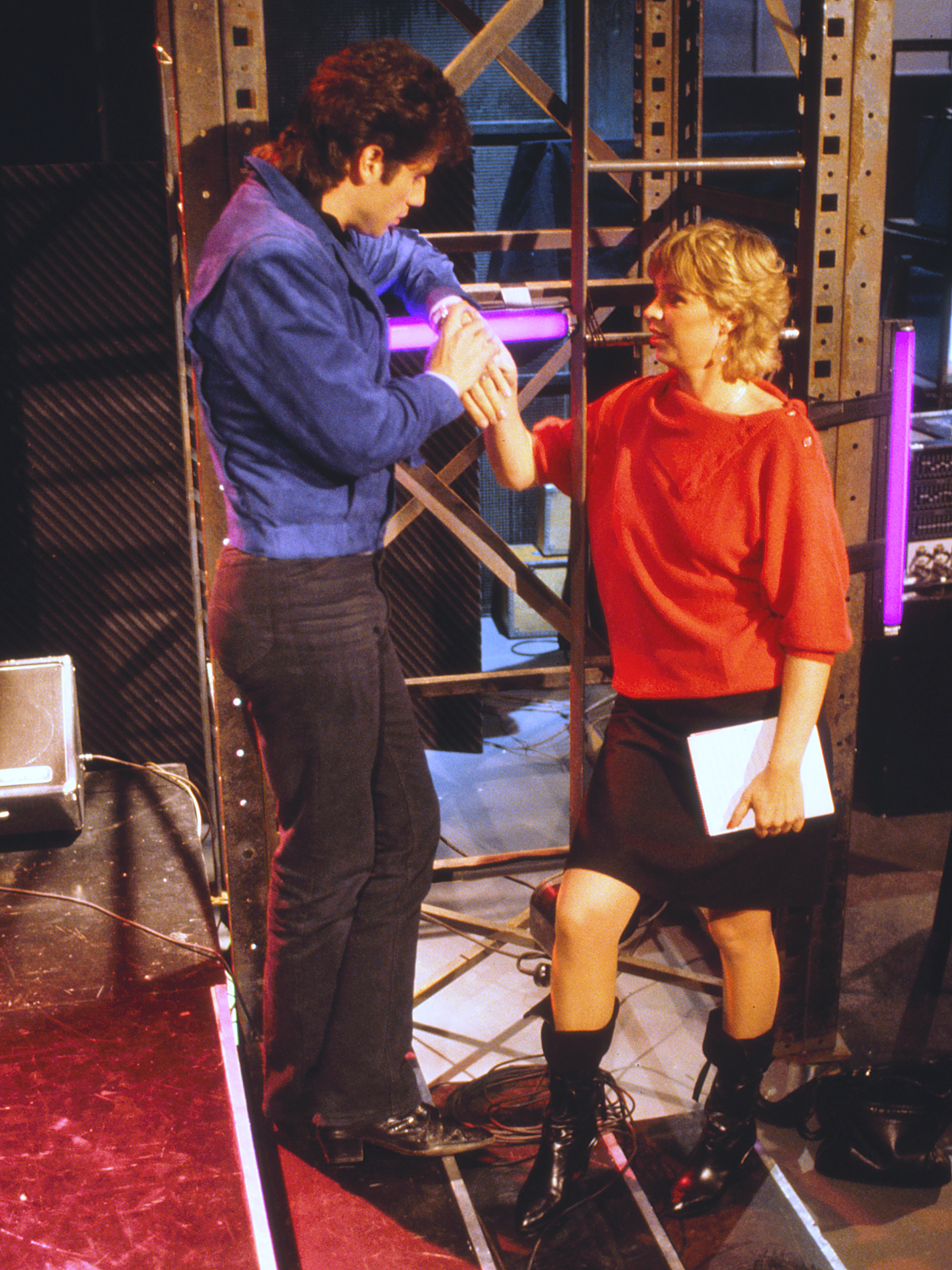 John and Stina warming up before the talk show "Nöjesmaskinen"